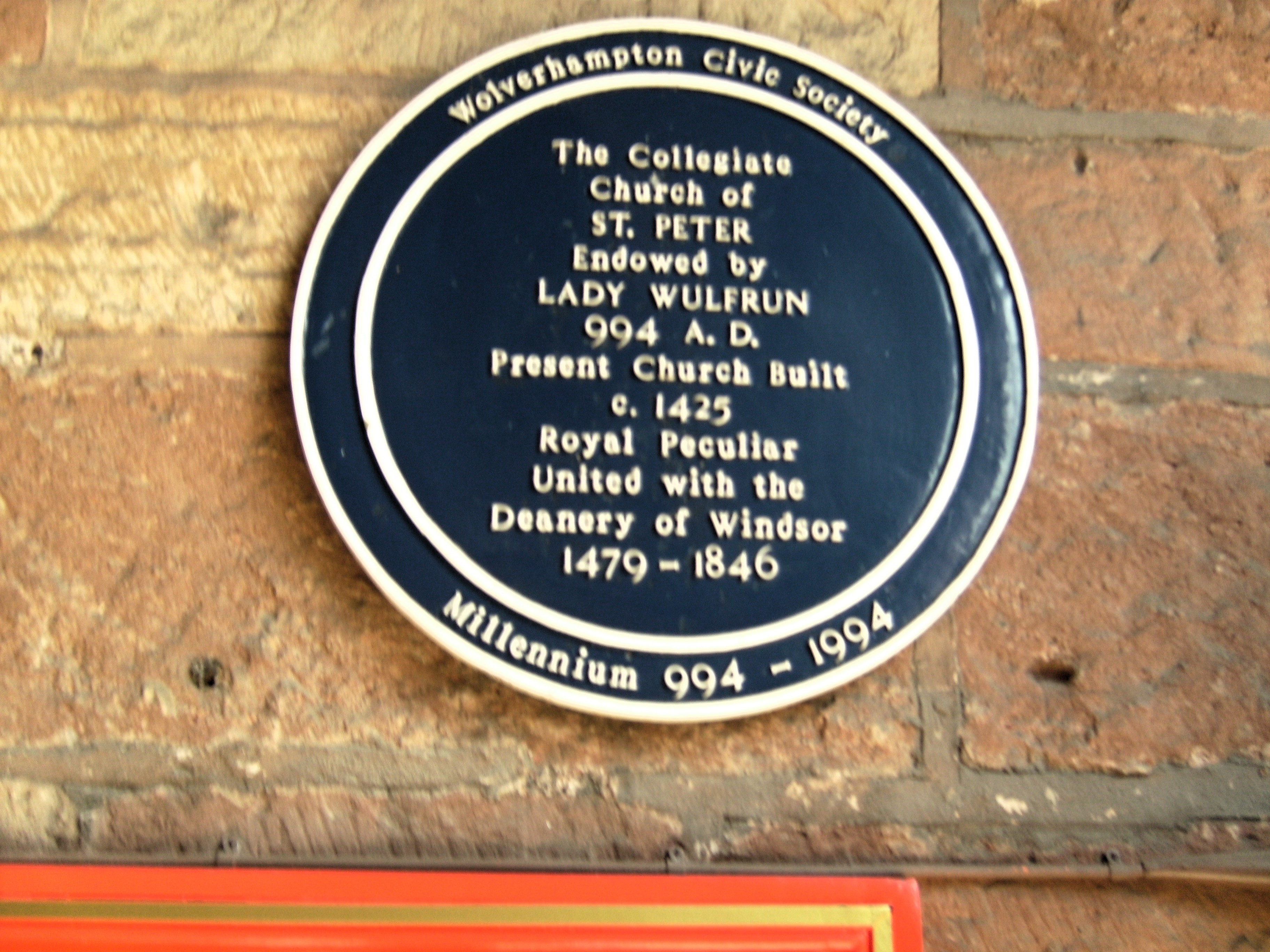 Wolverhampton Civic Society blue plaque at St. Peter's Collegiate church, Wolverhampton, West Midlands, England. Parish of Central Wolverhampton WV1 1TS.